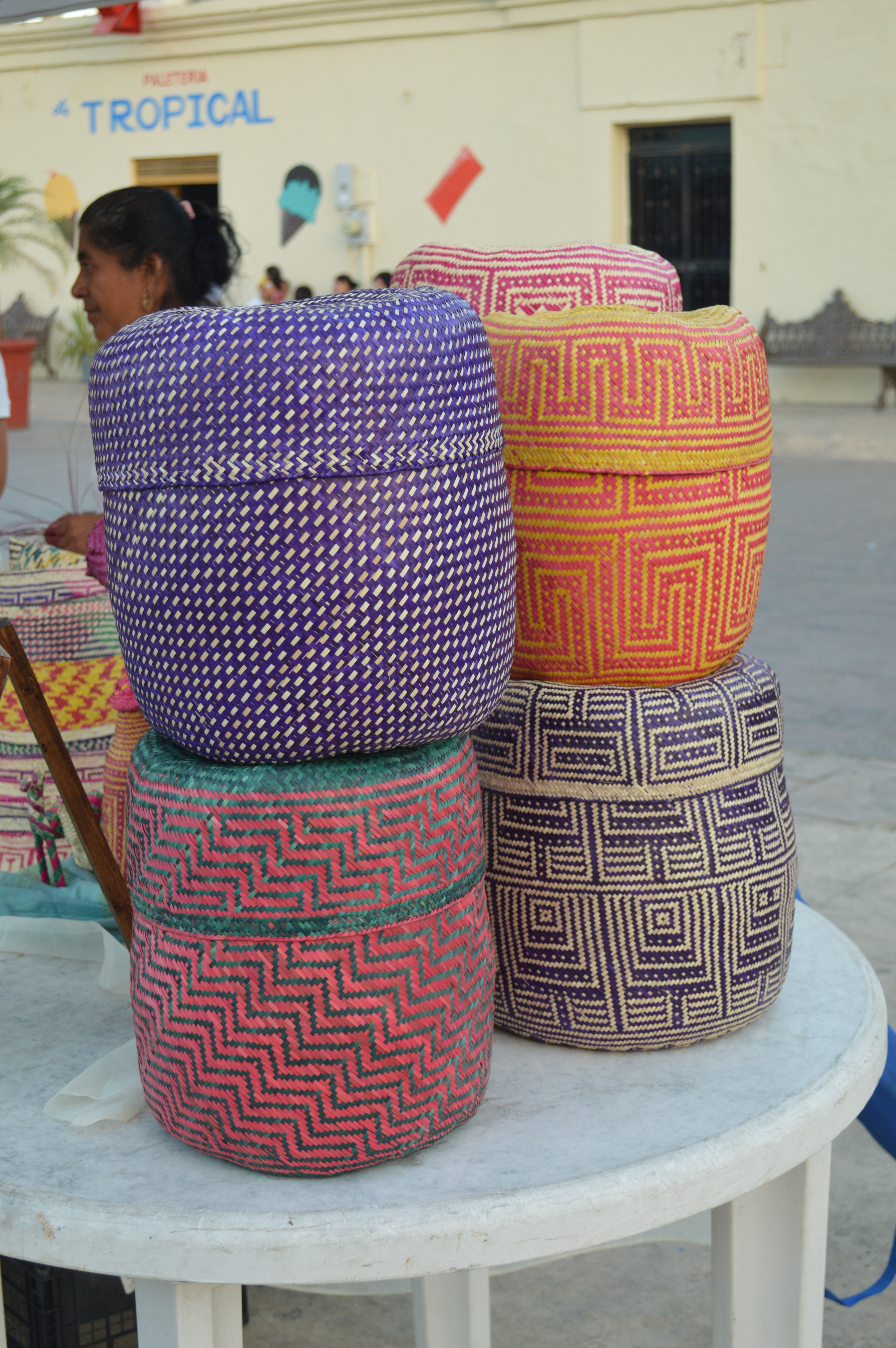 Baskets for sale by the artisan in San Jose del Cabo, Baja California Sur